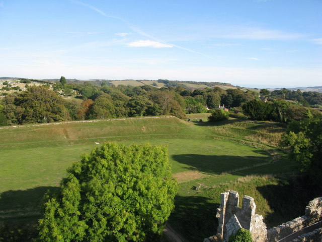 The Bowling Green, Carisbrooke Castle Created for Charles I during his imprisonment in the castle in 1648